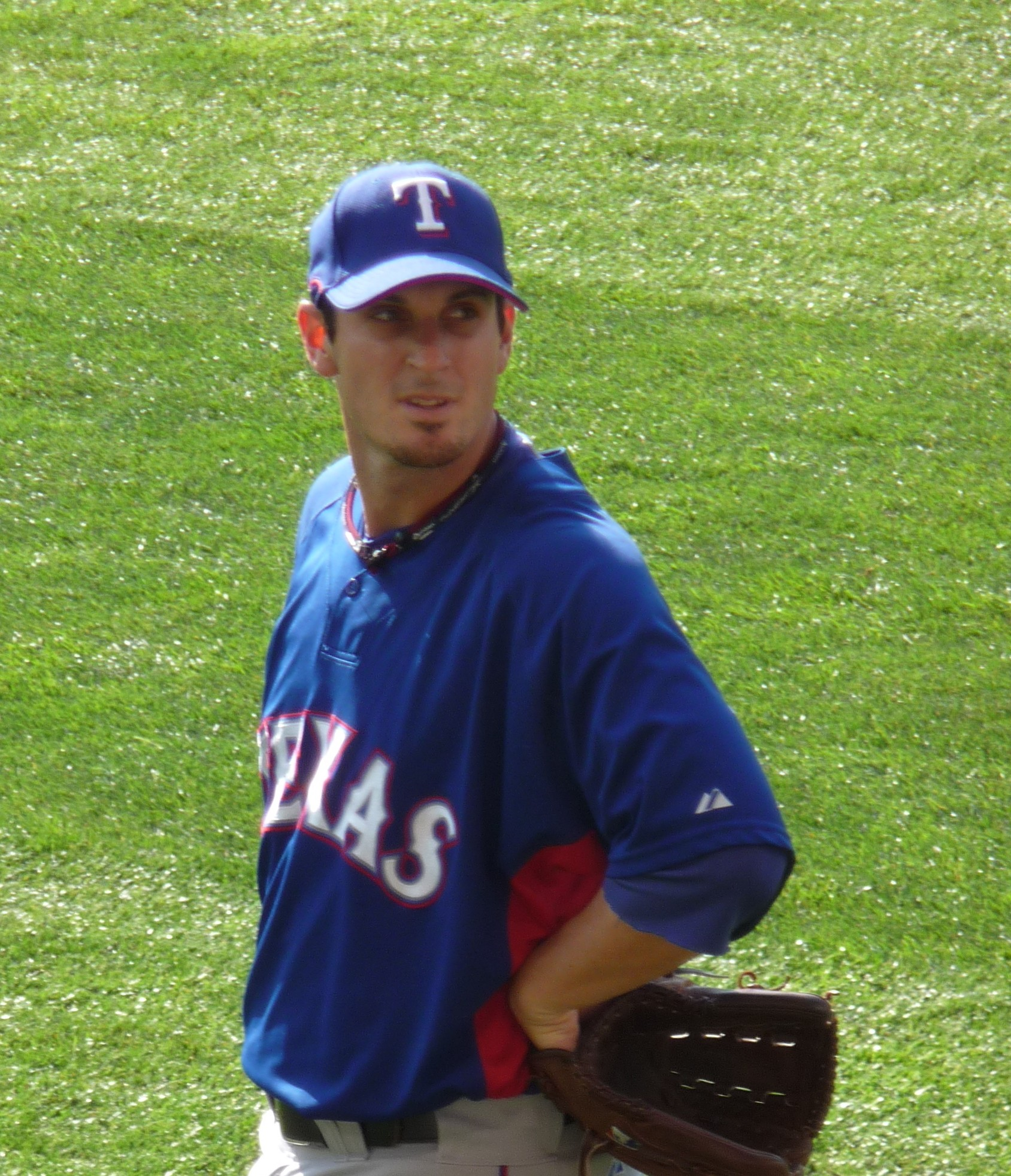 Doug Mathis of the Texas Rangers, preparing for the game at Seattle.